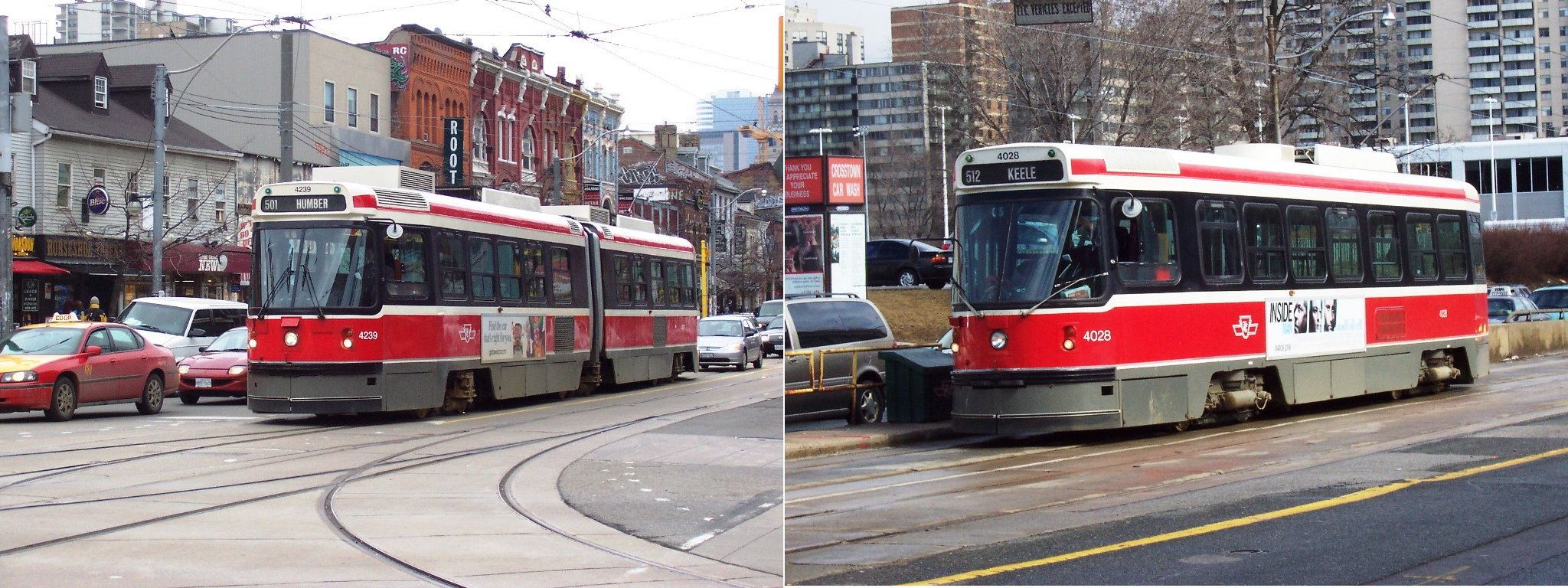 TTC ALRV #4239 at Queen Street West and Spadina Avenue on the 501 (left) and CLRV #4028 at St. Clair Avenue West and Bathurst Street on the 512 (right). These are the two types of streetcars used in the TTC steetcar system.